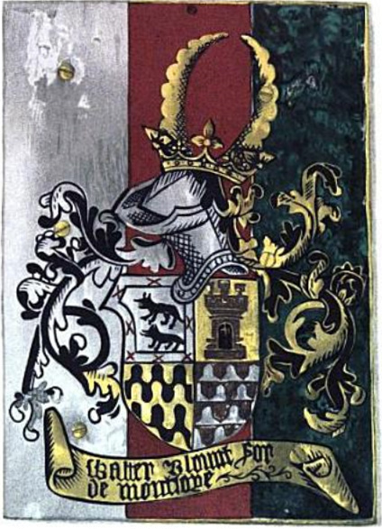 Garter stall plate of Walter Blount, 1st Baron Mountjoy (c.1416-1474), KG. St George's Chapel, Windsor Castle. Image published in: Hope, W. H. St. John, The Stall Plates of the Knights of the Order of the Garter 1348 – 1485: A Series of Ninety Full-Sized Coloured Facsimiles with Descriptive Notes and Historical Introductions, Westminster, Archibald Constable and Company Ltd, 1901, plate LXXVIII. Arms: quarterly: 1, Argent, two wolves passant sable on a bordure of the first eight saltires gules (Ayala); 2, Or, a tower azure (Mountjoy); 3, Barry undé or and sable (Blount); 4. Vair (Gresley)